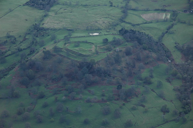 Site of Elmley Castle from the air From the air the earthwork remains of Elmley Castle are impressive. Unfortunately the site is on private land.